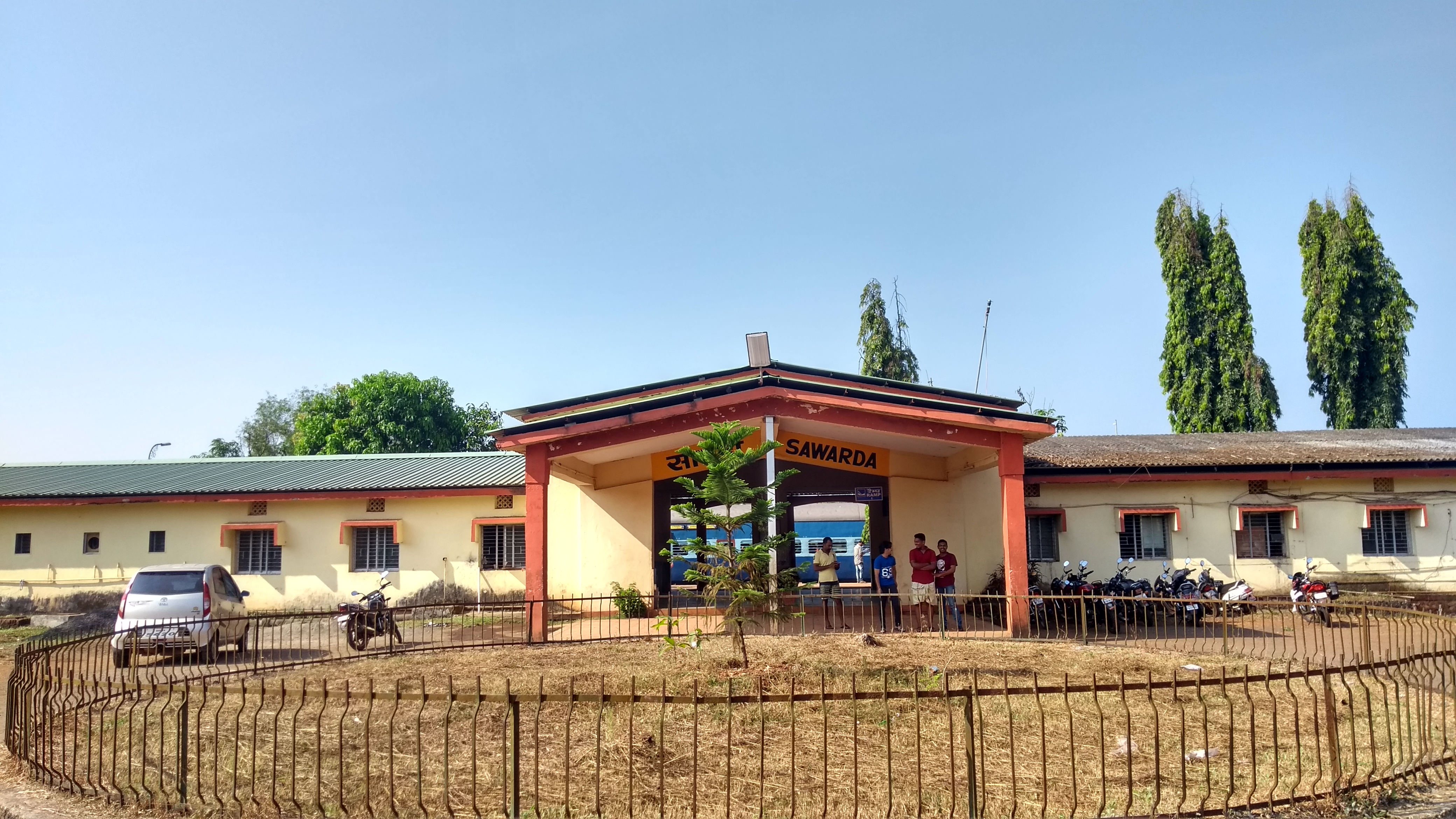 front view of Sawarda Railway station